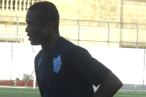 Picture of Orosco Anonam.